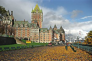 This beautiful chateau is located in the heart of Quebec, Canada. Taken by Rene Schwietzke 5-5.6 IV USM, 28-80 Flashlight: none Filter: UV Film: Fuji Superia 200 Weather: Rainy, partly cloudy Time: October 2001, noon Chateau Frontenac, Quebec, Canada